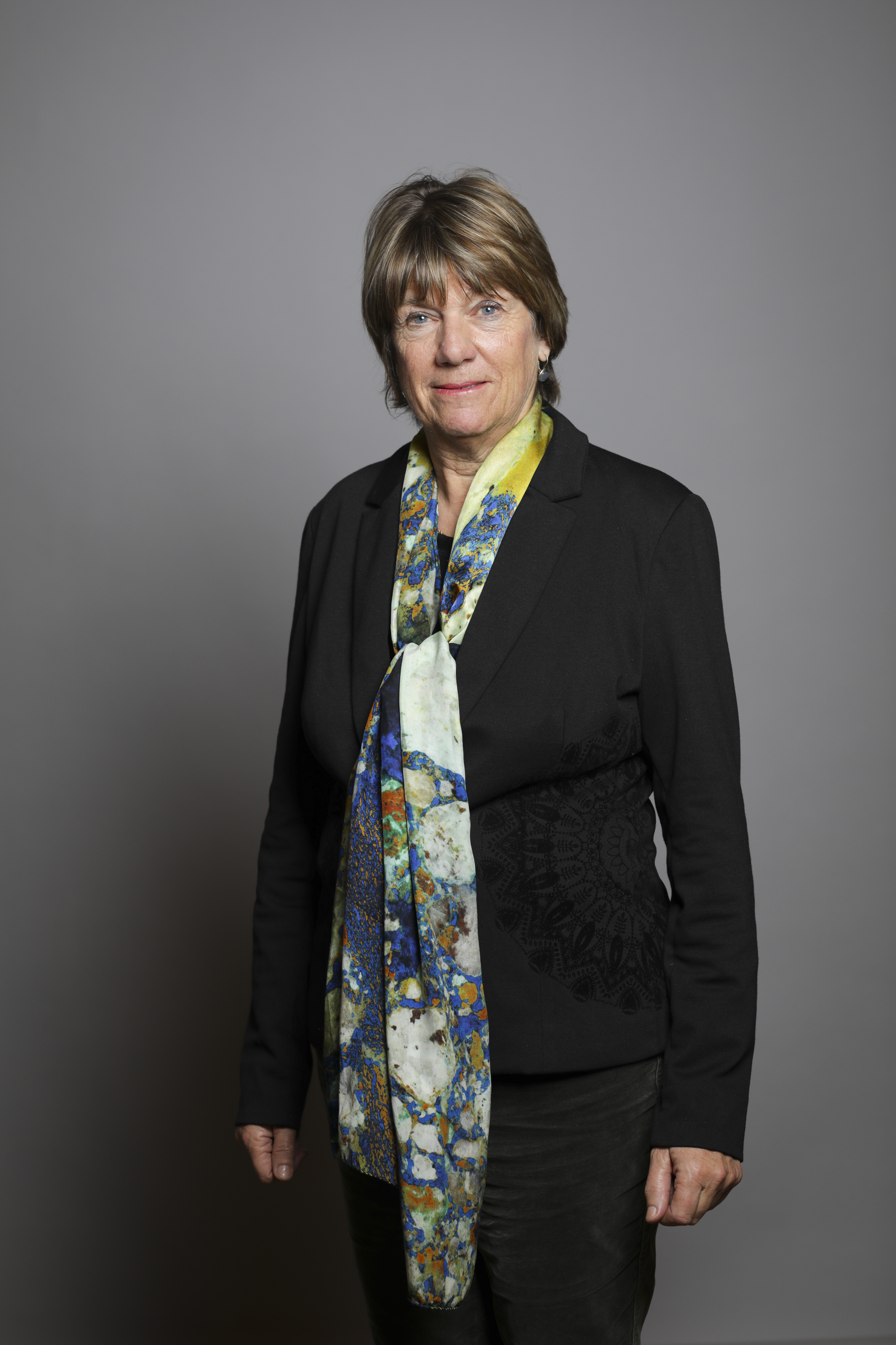 Official portrait of Baroness Miller of Chilthorne Domer Full sized portrait of Baroness Miller of Chilthorne Domer